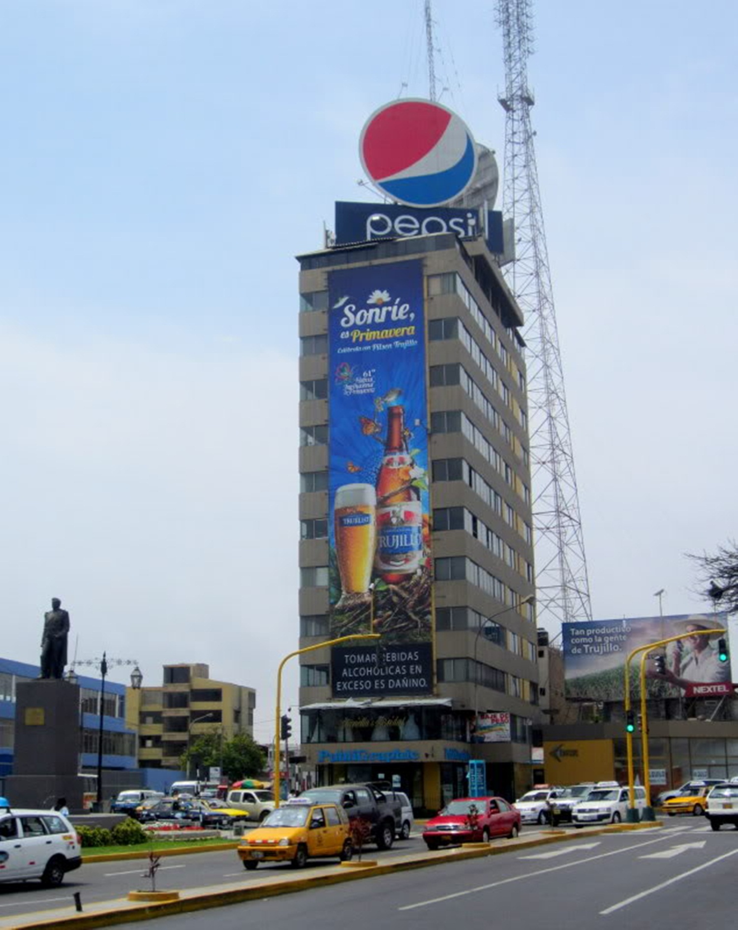 Spain Avenue